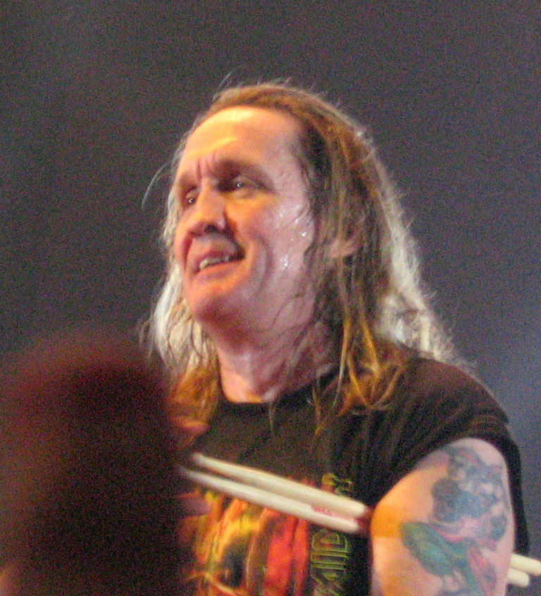 Nicko McBrain, Iron Maiden's drummer, during a show in Barcelona (A Matter of Life and Death World Tour).